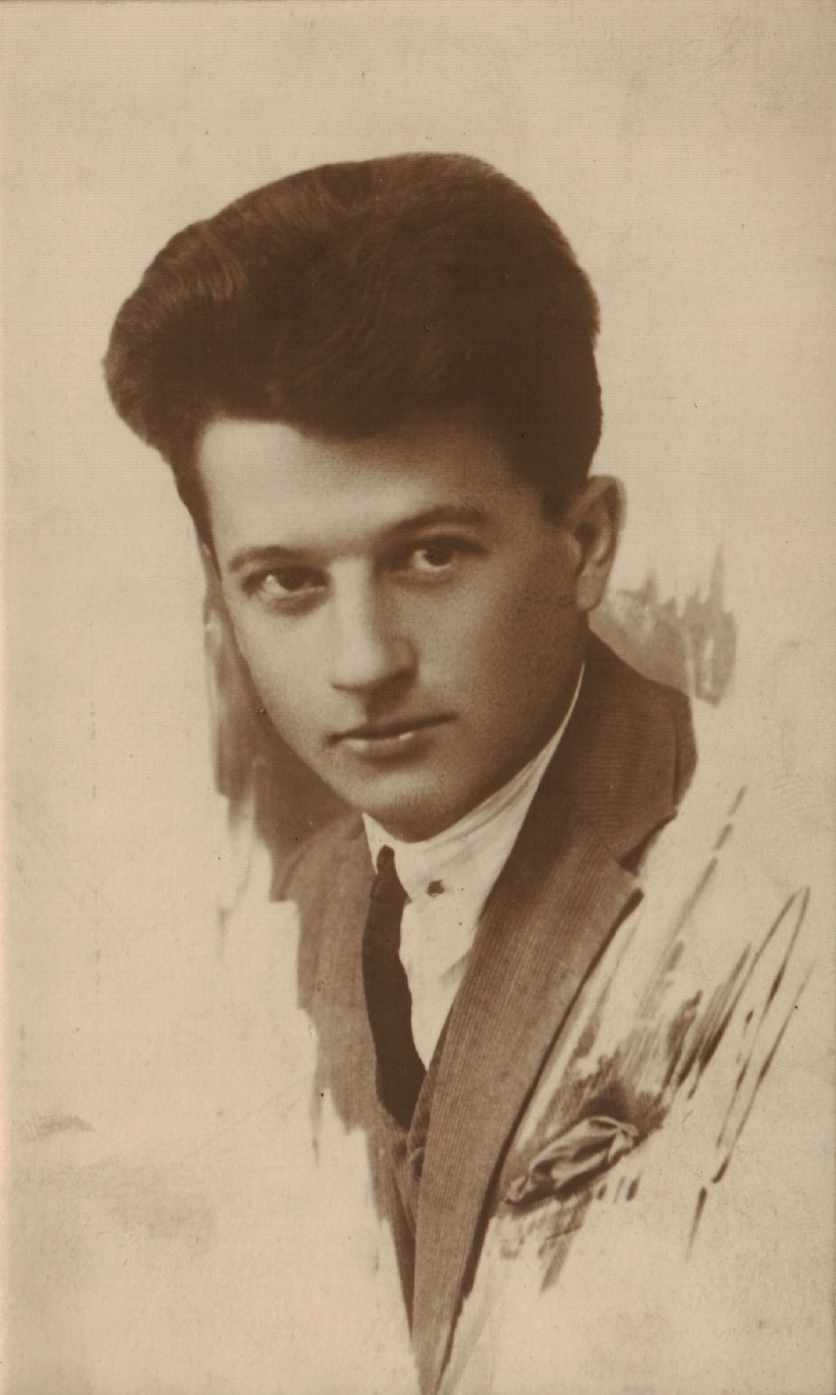 T. Kushev